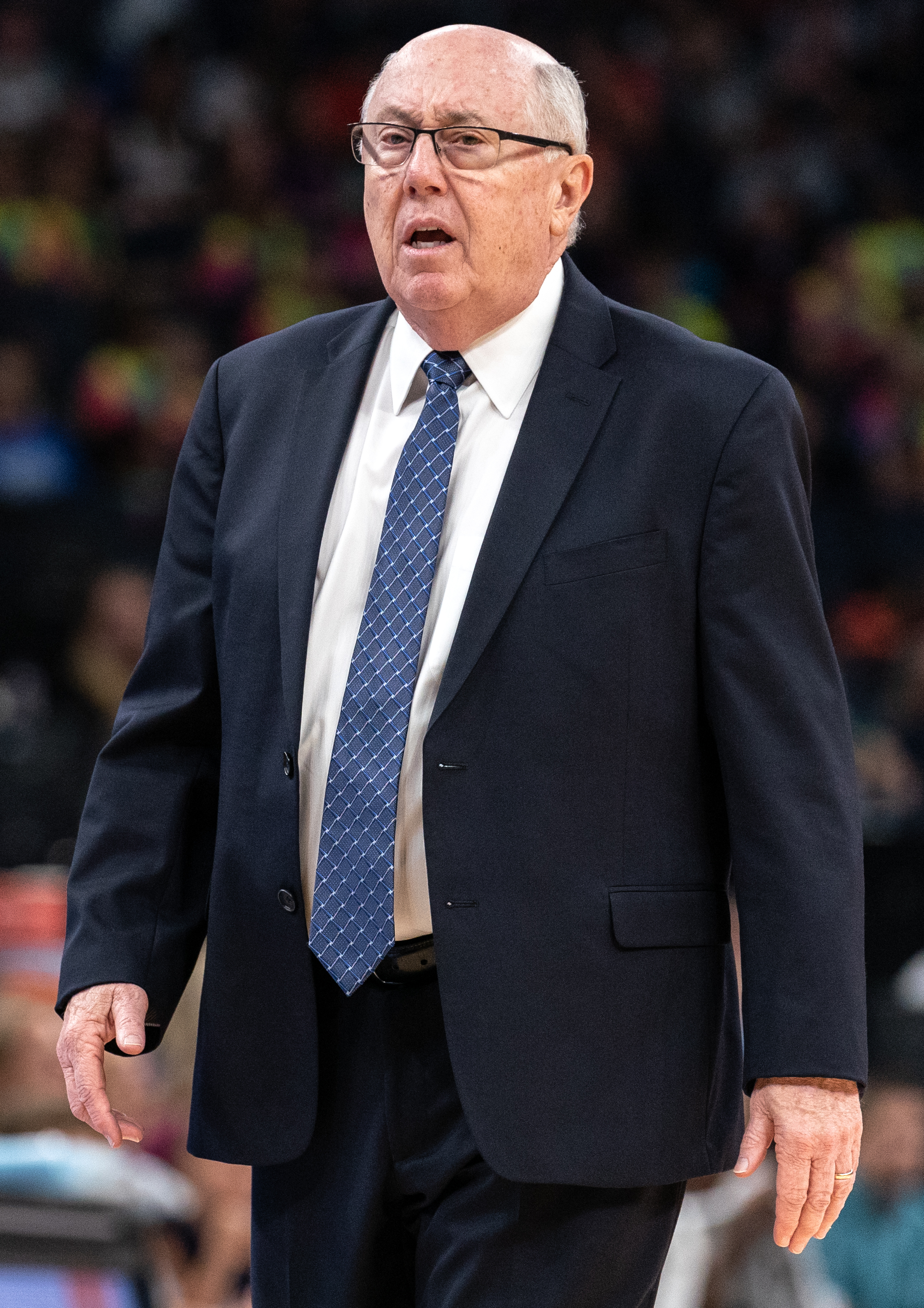 Minnesota Lynx vs Washington Mystics on July 24 2019 at Target Center in Minneapolis, Minnesota; the Mystics won the game 79-71.